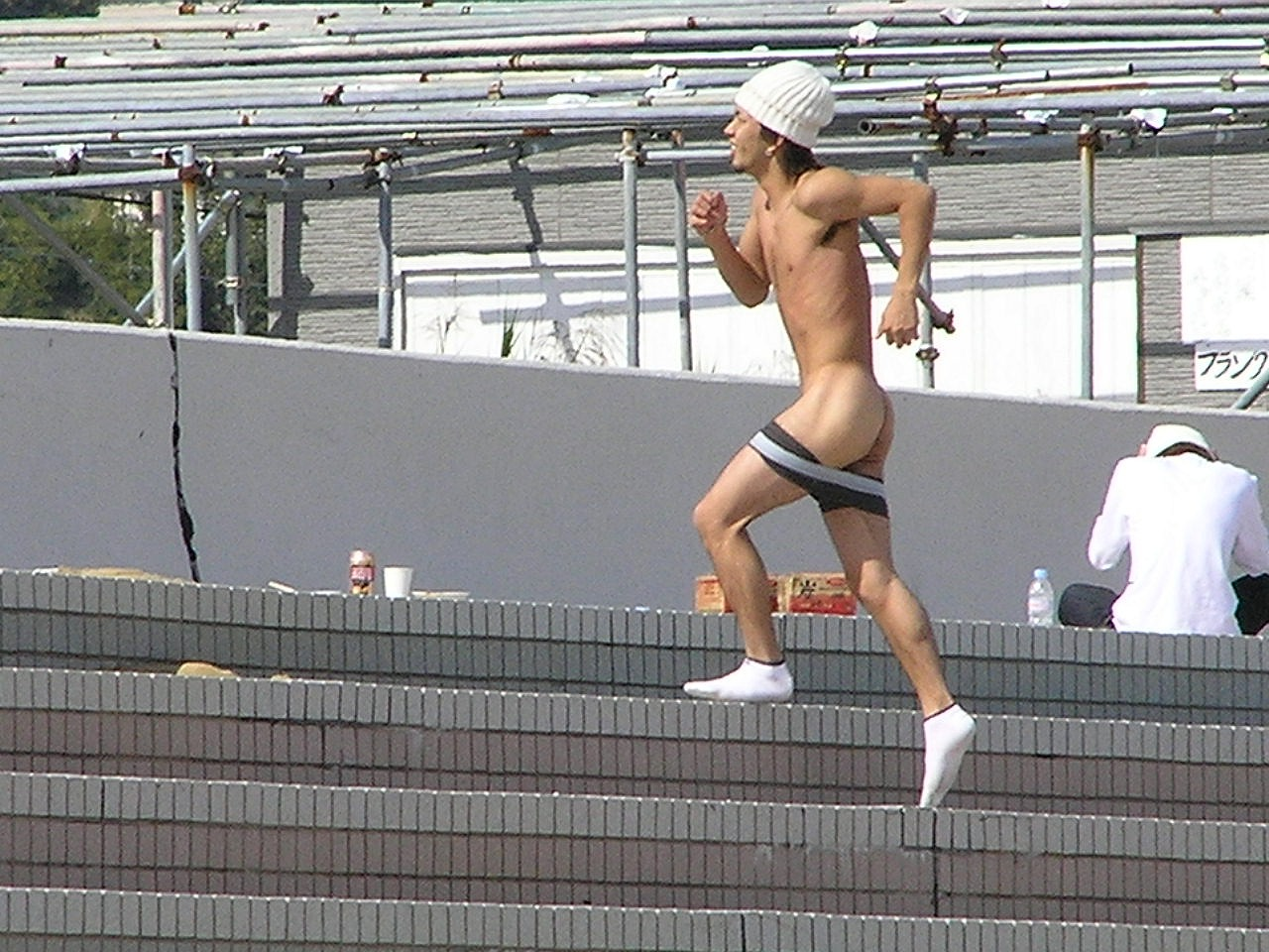 Japanese-Streaking